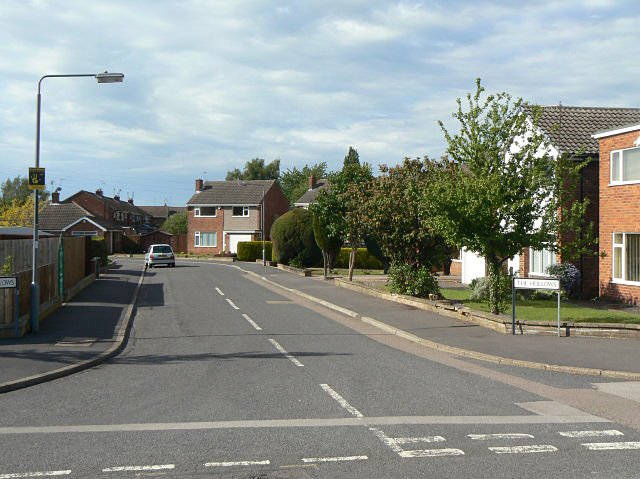 The Hollows, Silverdale Typical residential road on this 1960s estate.